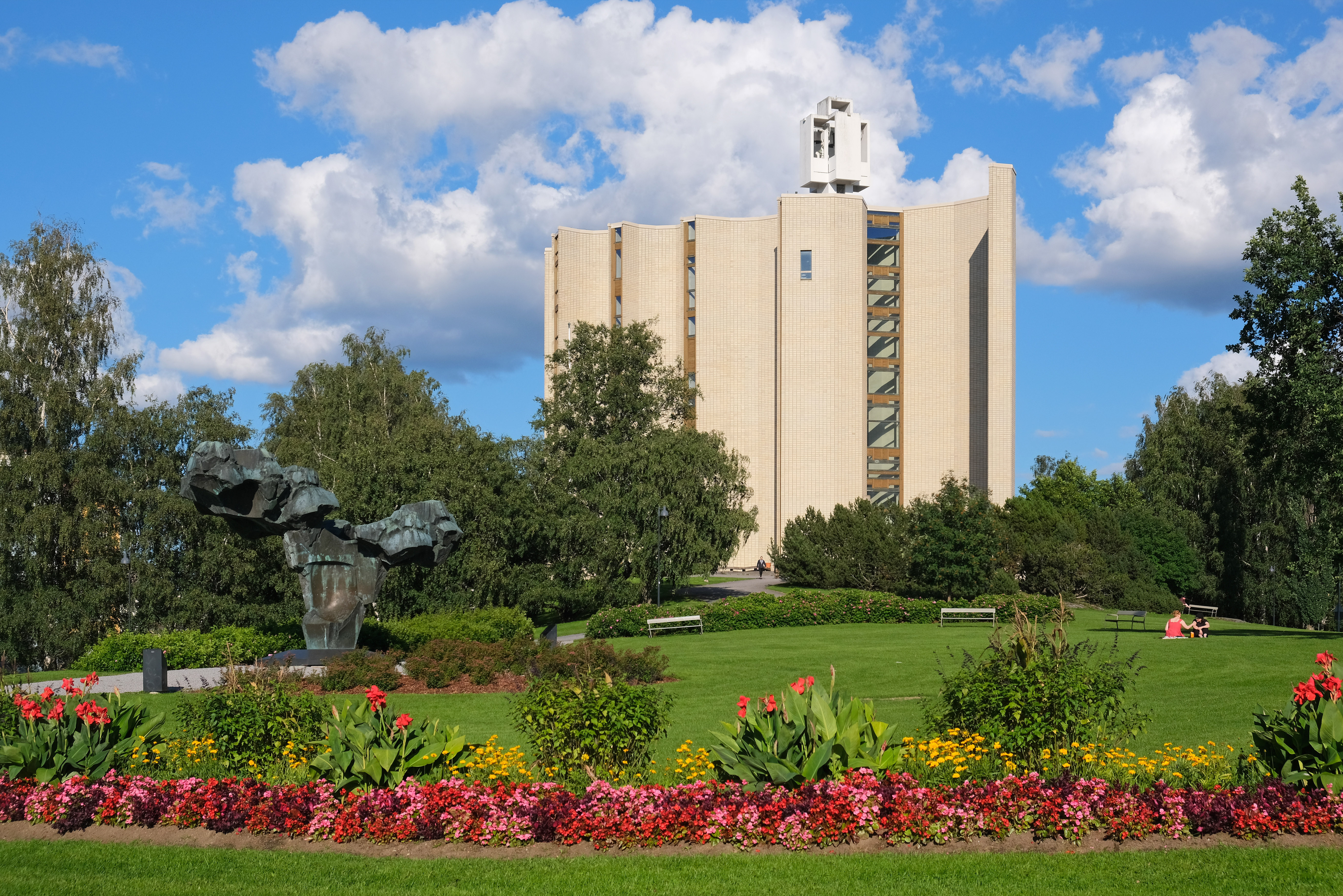 Kaleva church, Tampere.